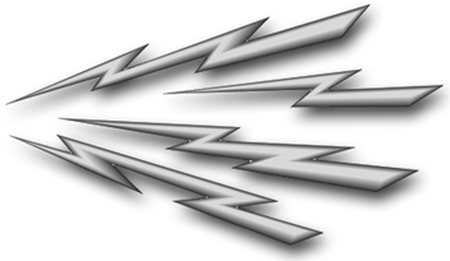 US Navy Information Systems Technician (IT). Four sparks; points to the front.